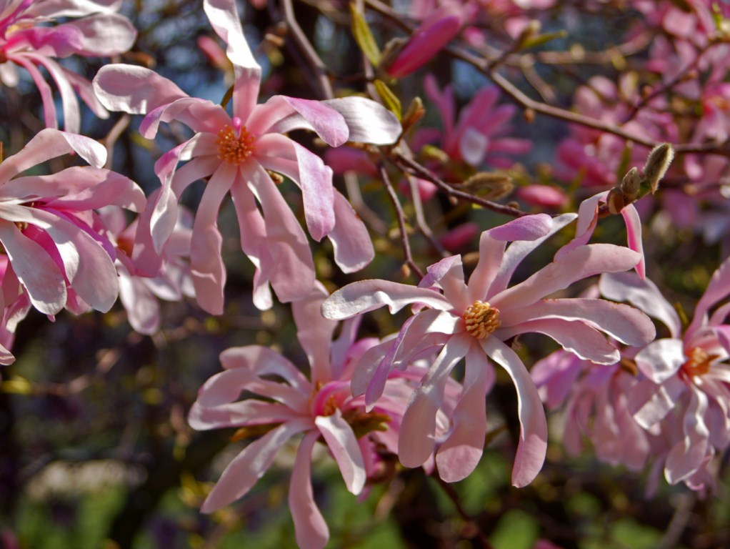 Flowers of Magnolia × loebneri 'Leonard Messel' at Burcina Park, Biella, Italy